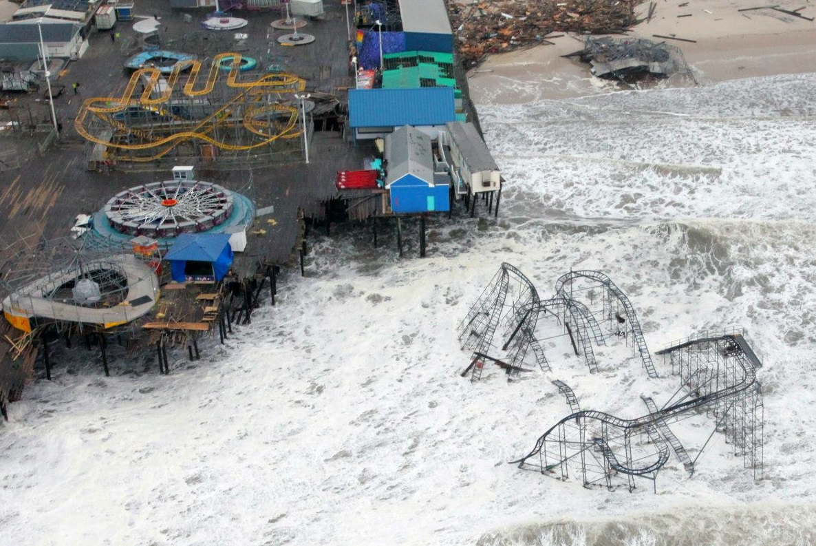 Aerial views of the damage caused by Hurricane Sandy to the New Jersey coast taken during a search and rescue mission by 1-150 Assault Helicopter Battalion, New Jersey Army National Guard, Oct. 30, 2012. (This appears to be Casino Pier, Seaside Heights, New Jersey.)